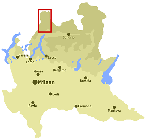 Position of the valley Valchiavenna